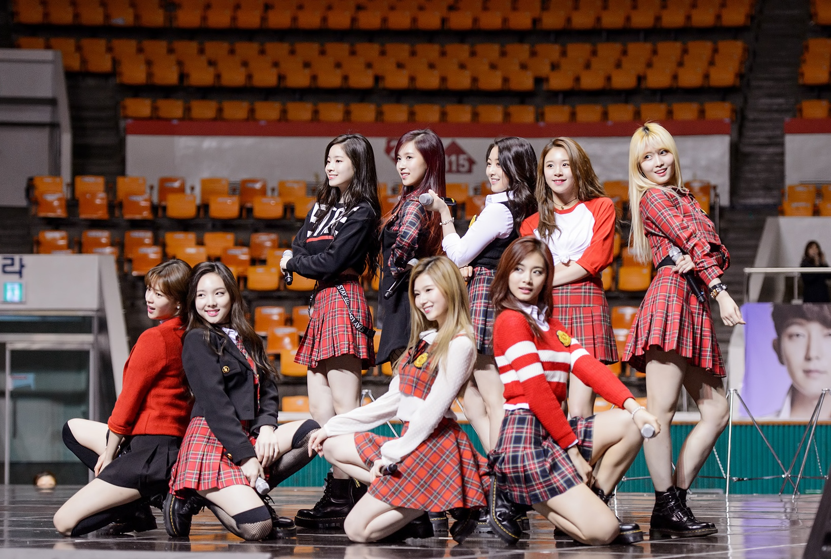 Twice performing at Seoul Arts College on February 27, 2016.